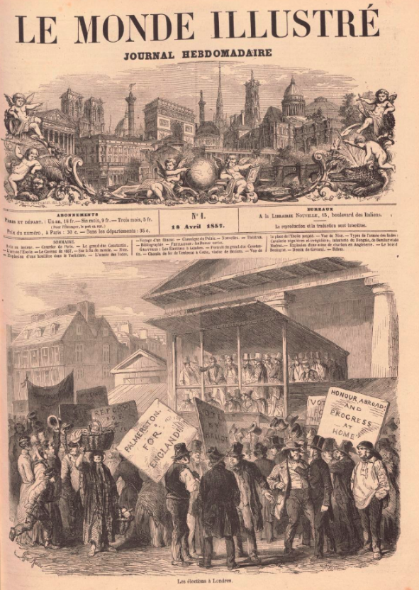 Front page of Le Monde illustré, issue 1, published in Paris, April 18th, 1857. The up title is designed by Hercule Catenacci (1814-1884). The down image is about the MP's elections in England.